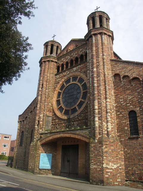 West front St Dunstan of Canterbury's Romanian Orthodox church, Bournemouth Road, Parkstone, Dorset, seen from the southwest